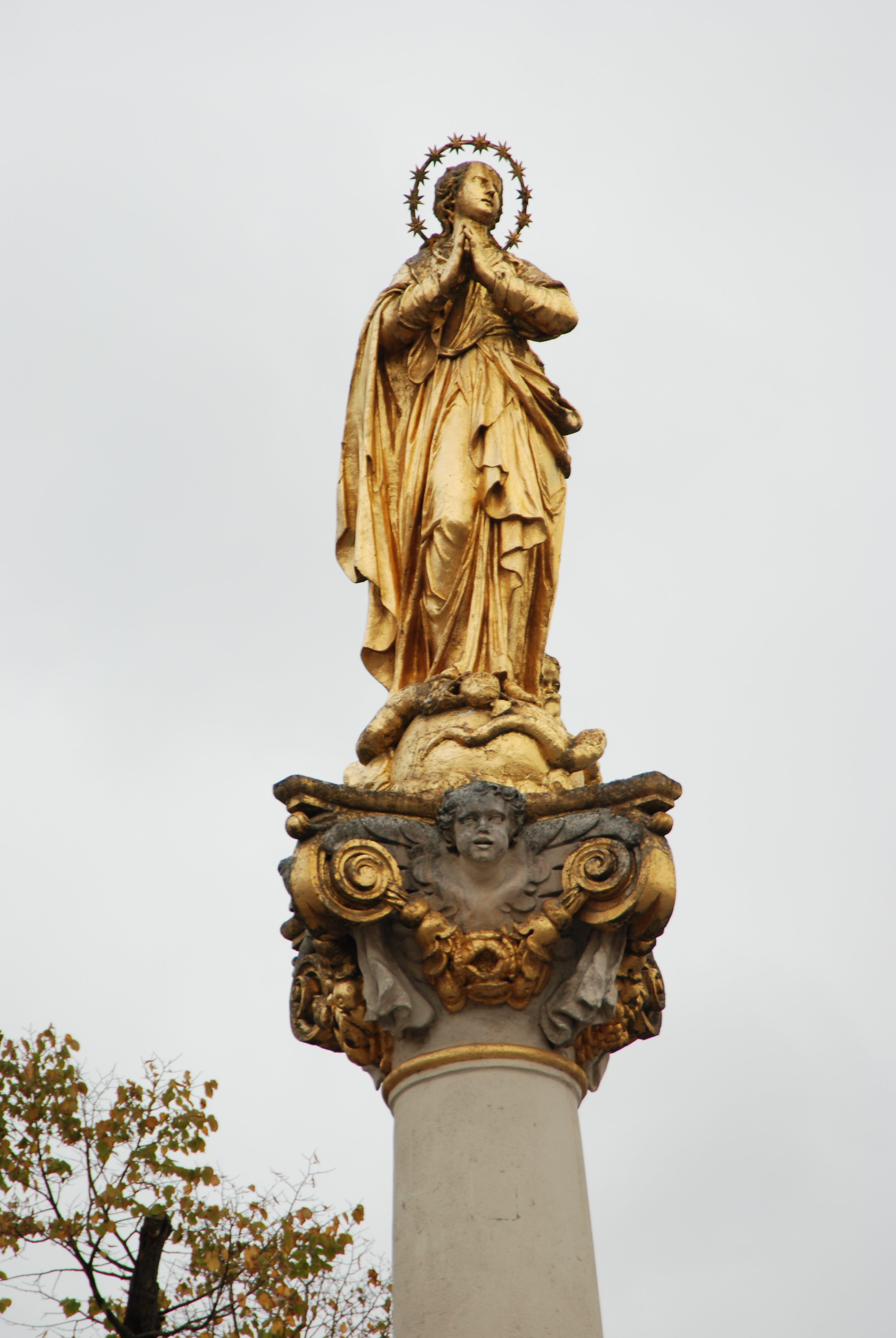 Mariensäule Burgau